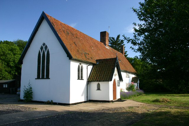 Catholic church, Lawshall. Dedicated to Our Lady and St Joseph.